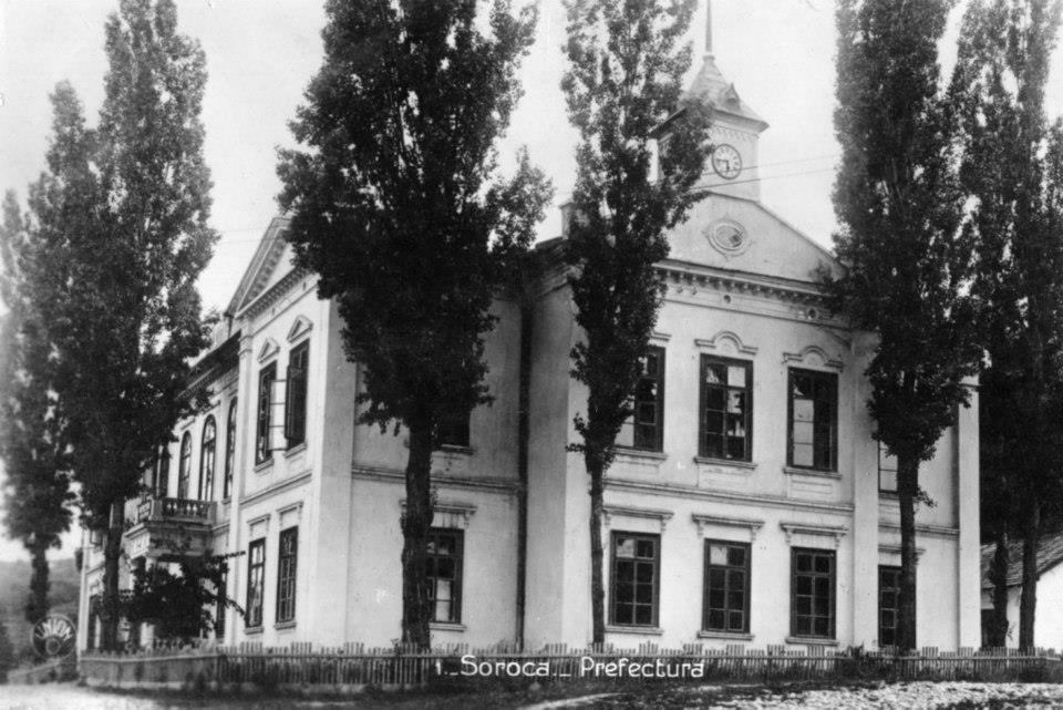 Soroca County Prefecture, illustrated in an early 20th century picture.